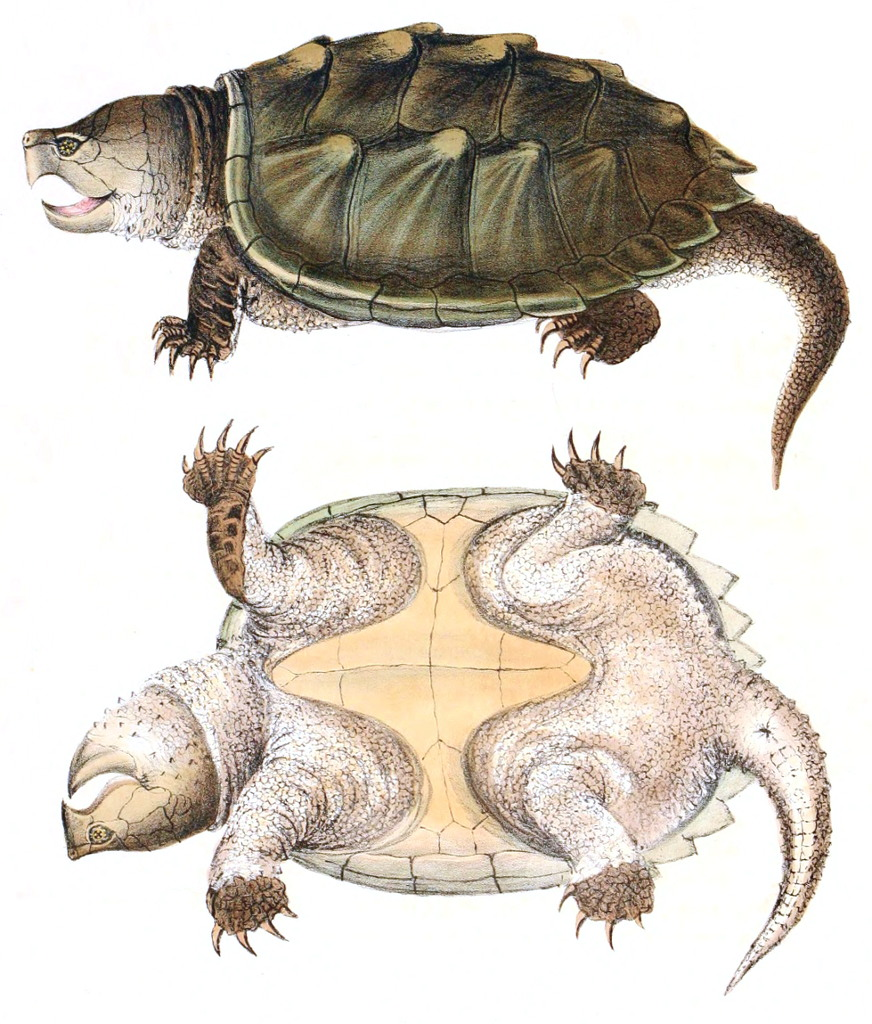 Alligator Snapping Turtle, Macrochelys temminckii, hand-colored lithograph, "J.H. Richard del."